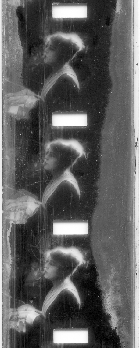 Length of 9.5 mm cine film- self -scanned; showing signs of deterioration & damage. Shows 3 frames in black & white of actress Edna Purviance in the 1917 Charlie Chaplin film "Easy Street"